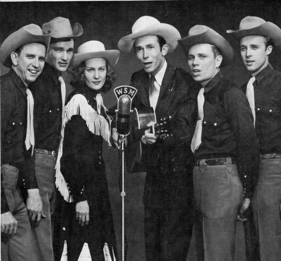 Hank Williams, Audrey Sheppard Williams and the Drifting Cowboys band in 1951